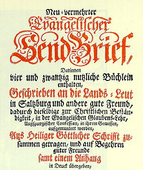 Pastoral letter from Joseph Schaitberger, a leading figure among late 17th century protestants in Salzburg, printed posthumus 1736 in Nuremberg.